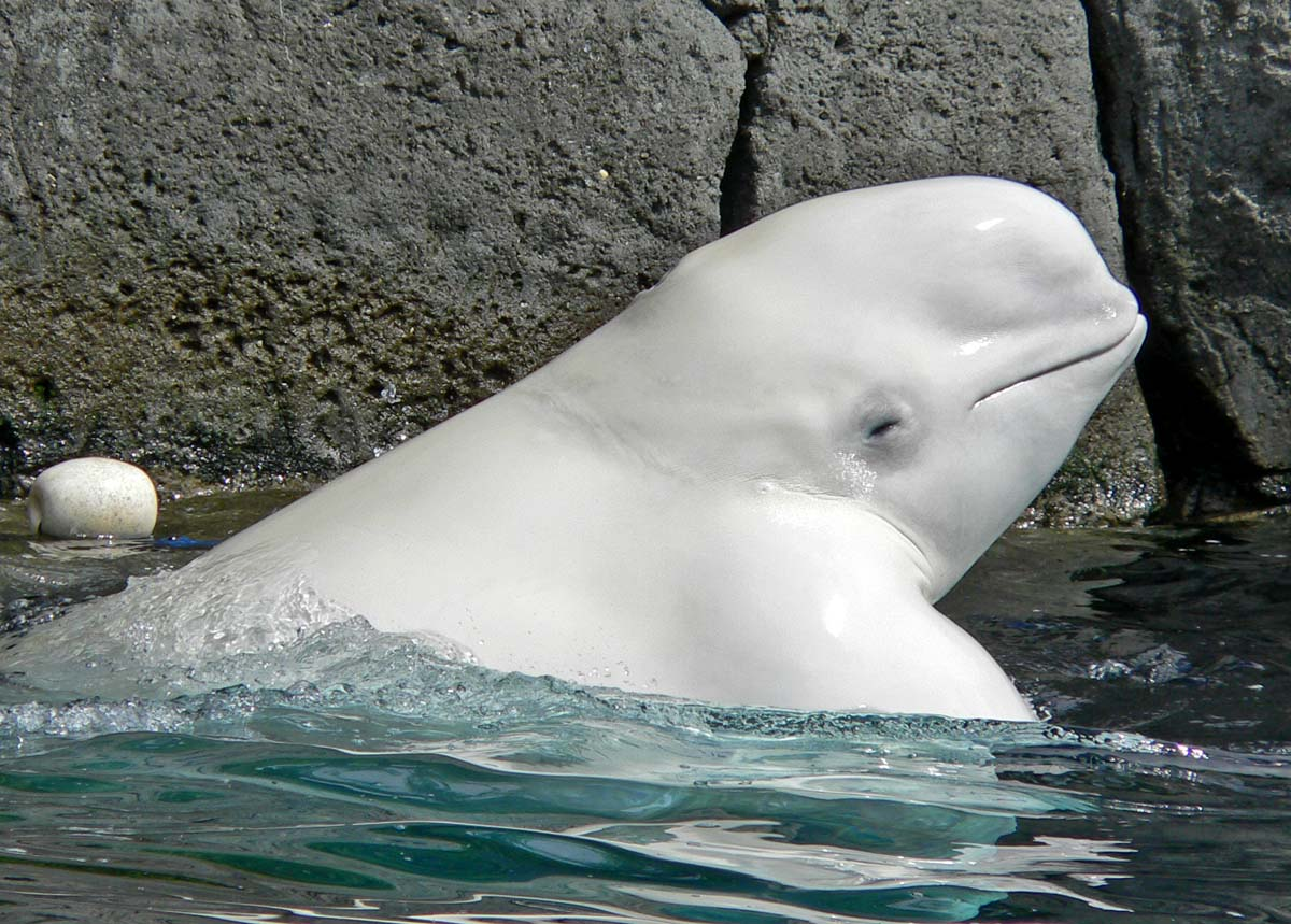 Delphinapterus leucas head 3